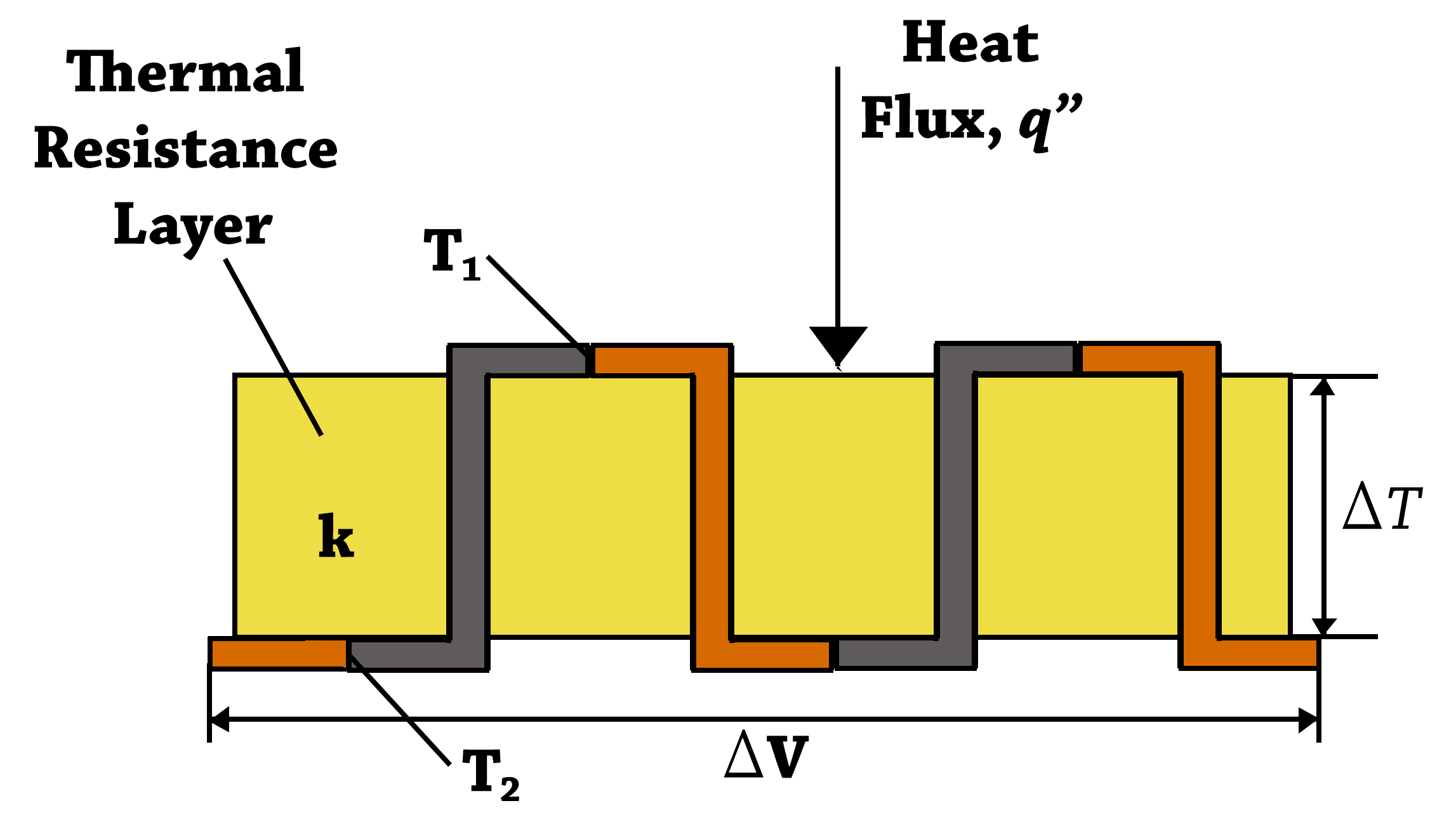 Diagram of a differential temperature thermopile with two sets of thermocouple pairs connected in series. The output voltage from the thermopile, ΔV, is directly proportional to the temperature differential, ΔT, across the thermal resistance layer and number of thermocouple junction pairs. The thermopile voltage output is also directly proportional to the heat flux, q", through the thermal resistance layer.